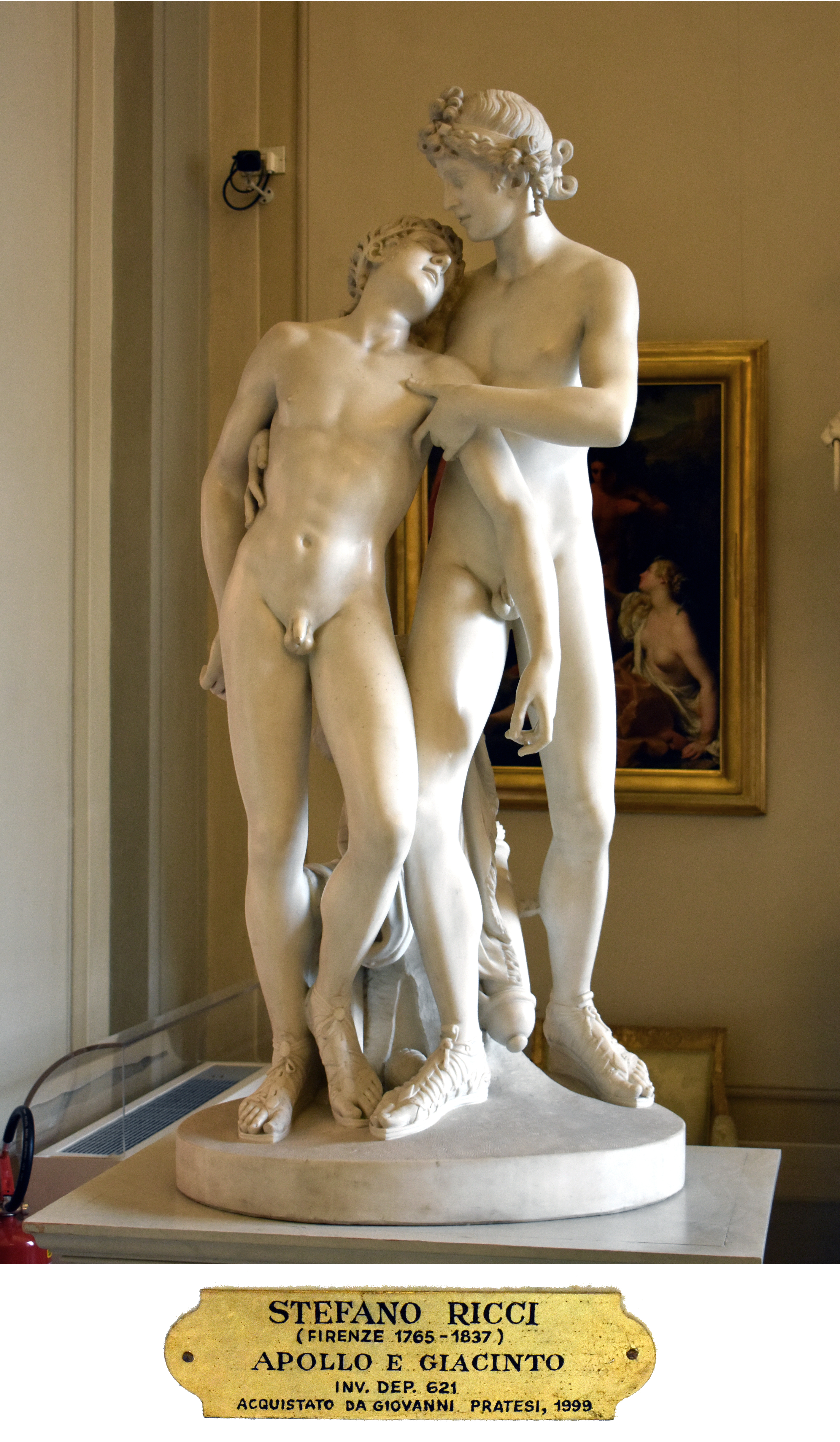 Apollo and Hyacinth